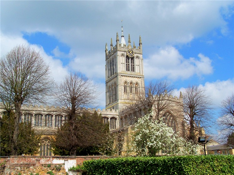 St Mary's church, Melton Mowbray taken by kev747